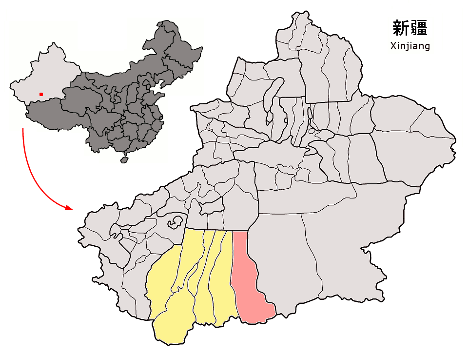 Location of Minfeng County (pink) and Hotan Prefecture (yellow) within Xinjiang autonomous region of China Map drawn in september 2007 using various sources, mainly : Xinjiang Uygur autonomous region administrative regions GIS data: 1:1M, County level, 1990 Xinjiang Counties map from